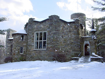 Stone house